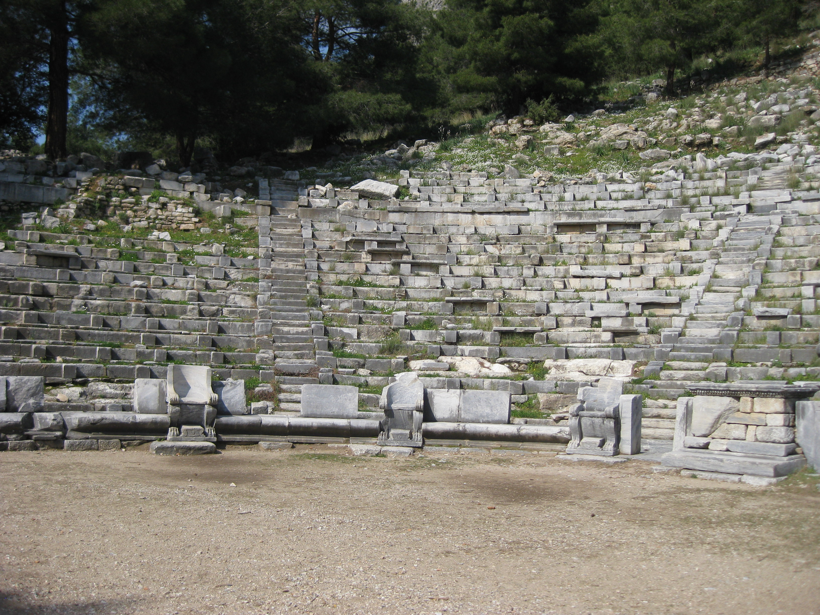 Antique Theatre, Priene